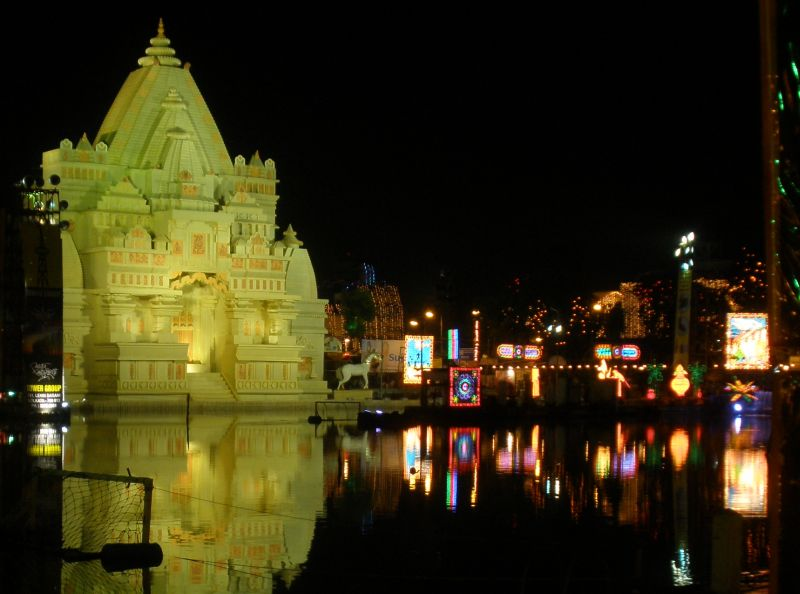 Durga pandal, college square